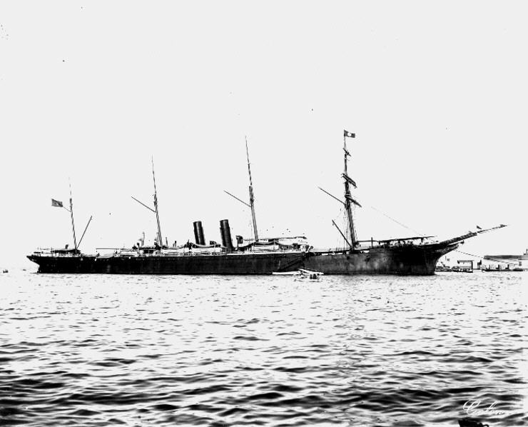 The Colon, Spanish Transport ship, at Port Said